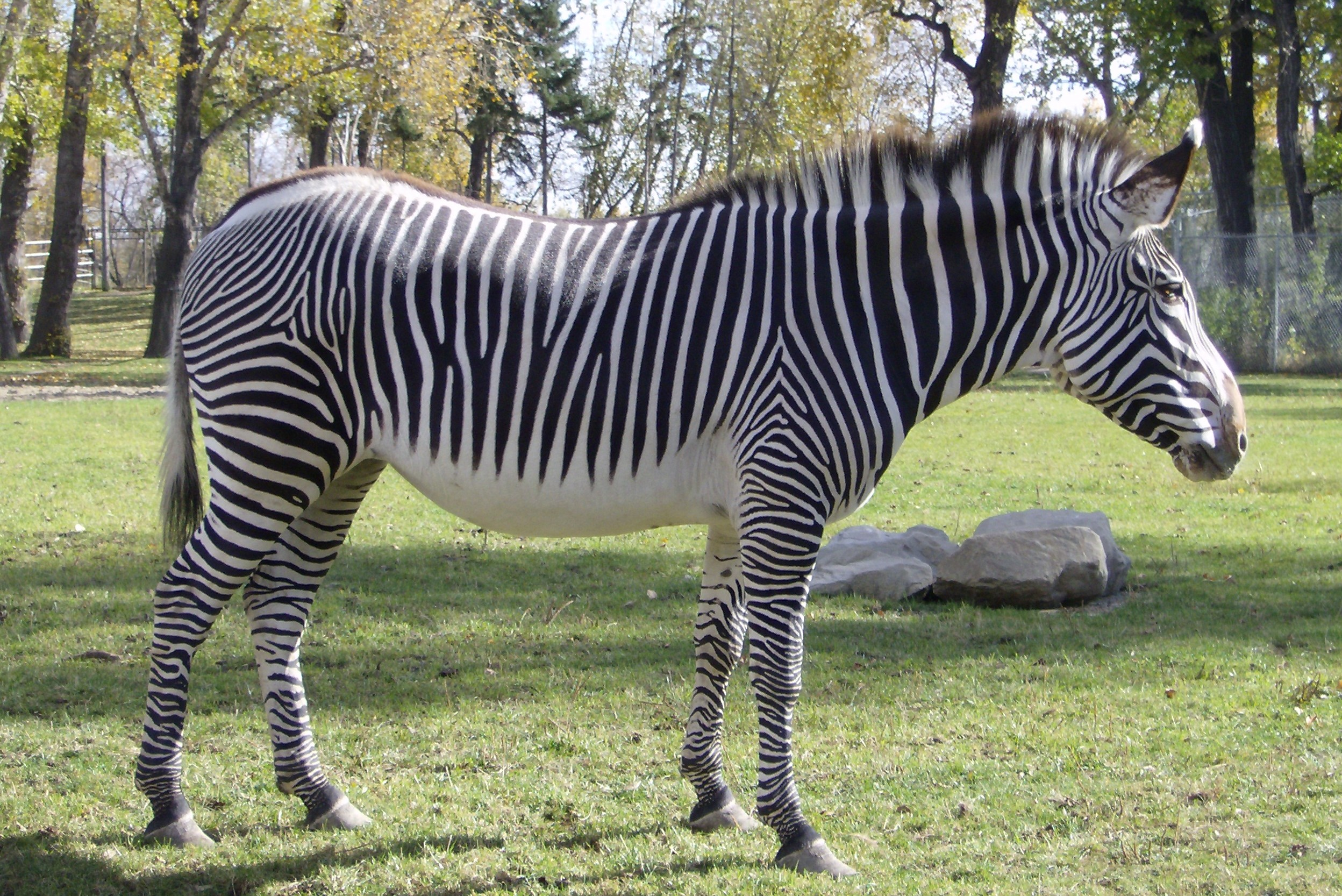 A picture of a "Grevy's Zebra" at the Calgary Zoo in Calgary, Alberta, Canada